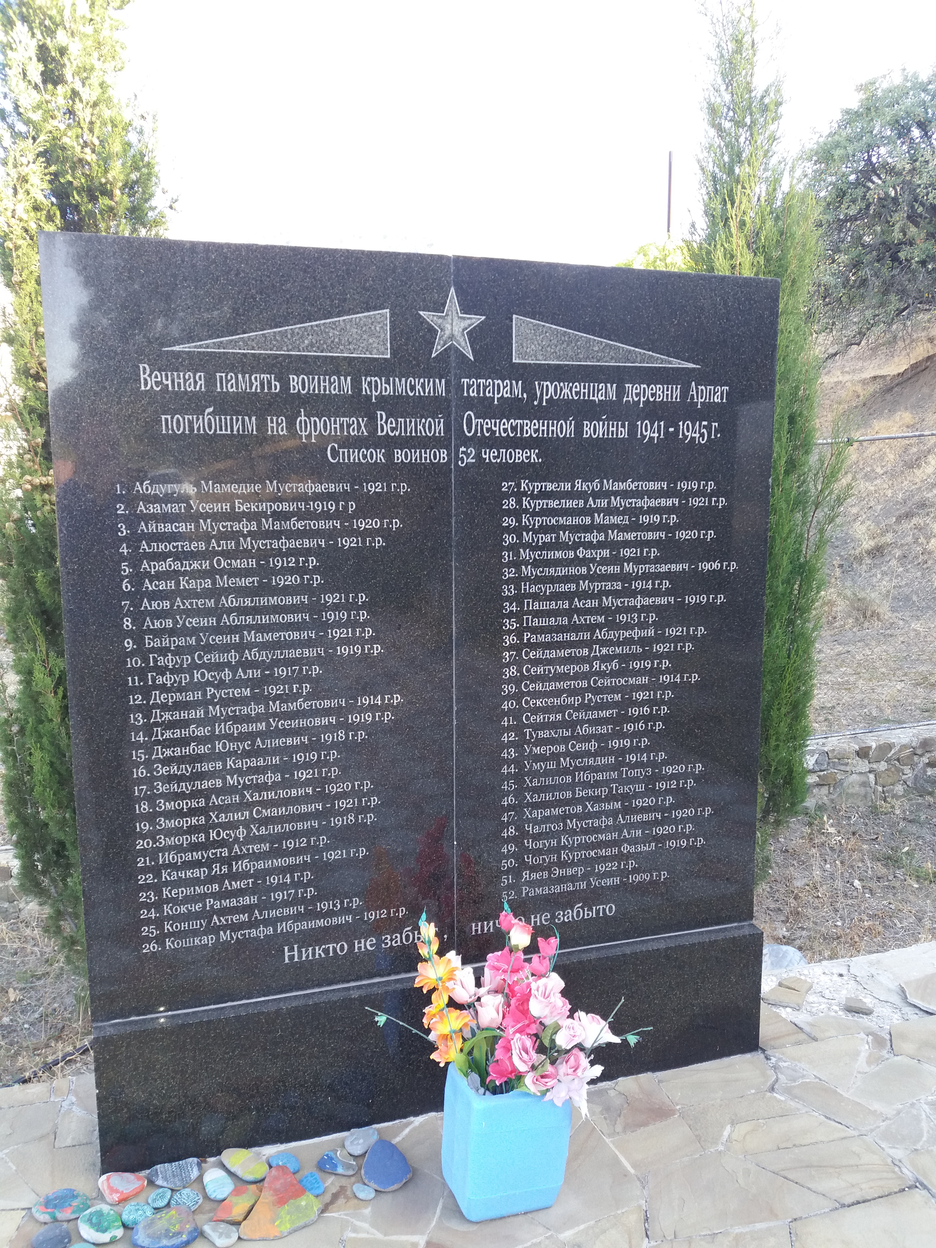 Memorial of Crimean Tatar warriors